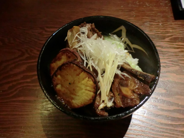 Wazzeeka don